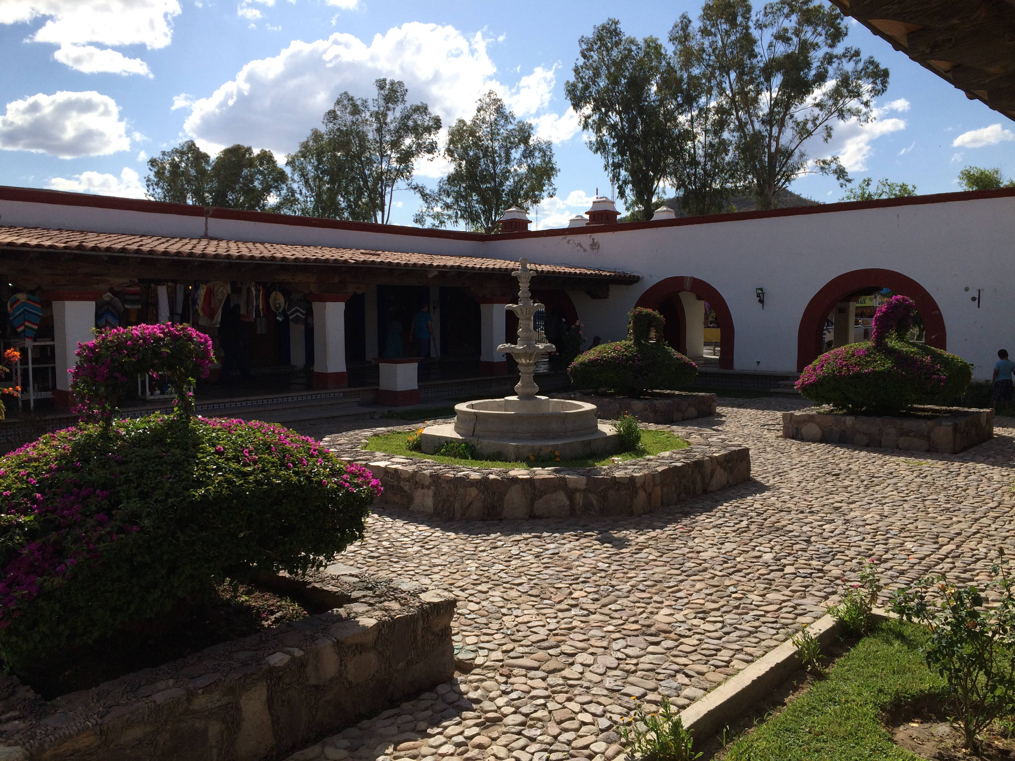 Garden at the municipal library in Magdalena de Kino, Mexico.